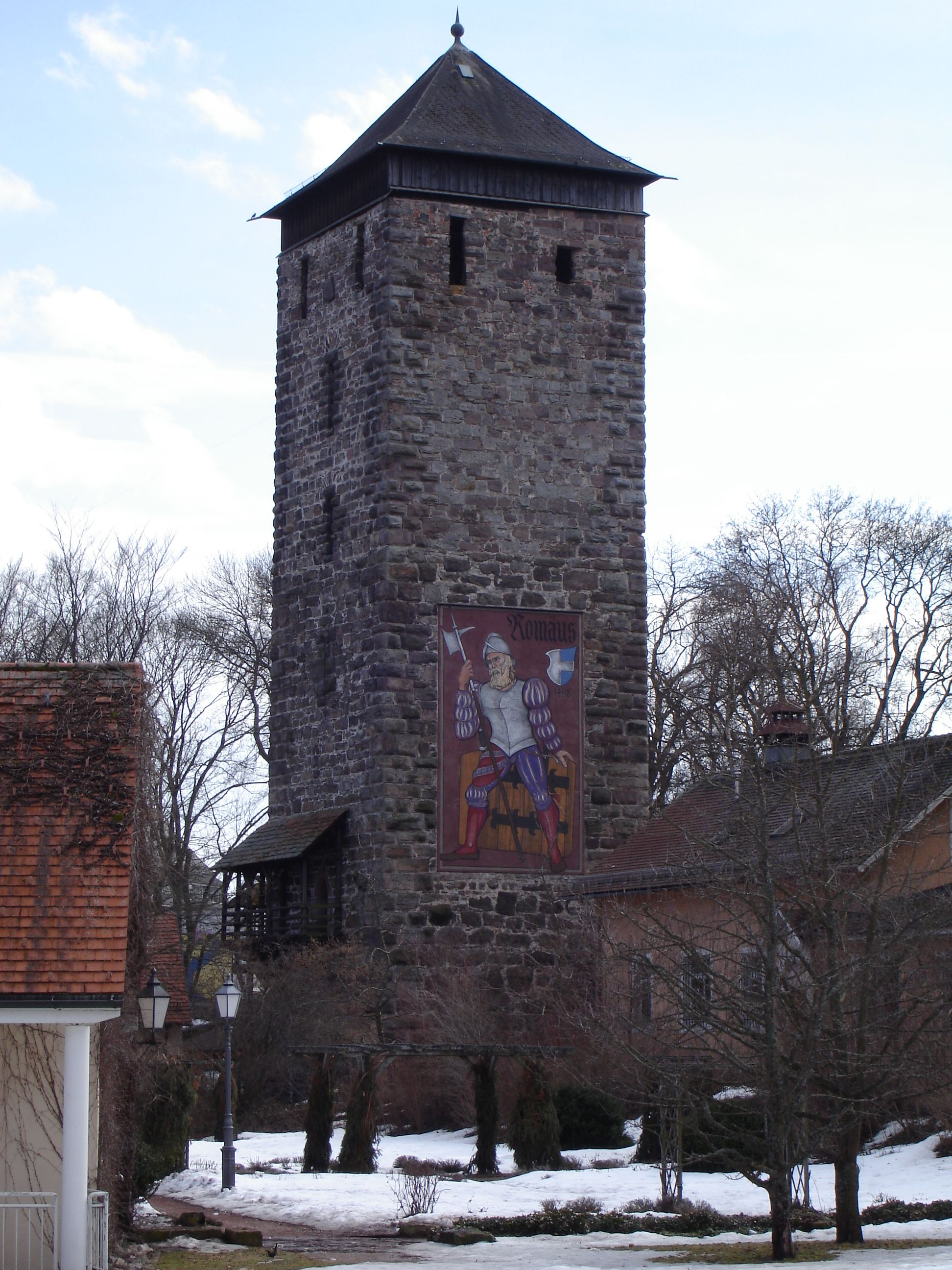 The Romäus tower taken inside the city walls of Villingen (Germany).